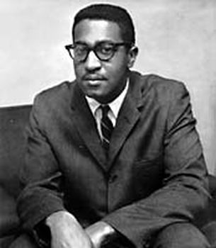 Civil Rights Activist circa 1960